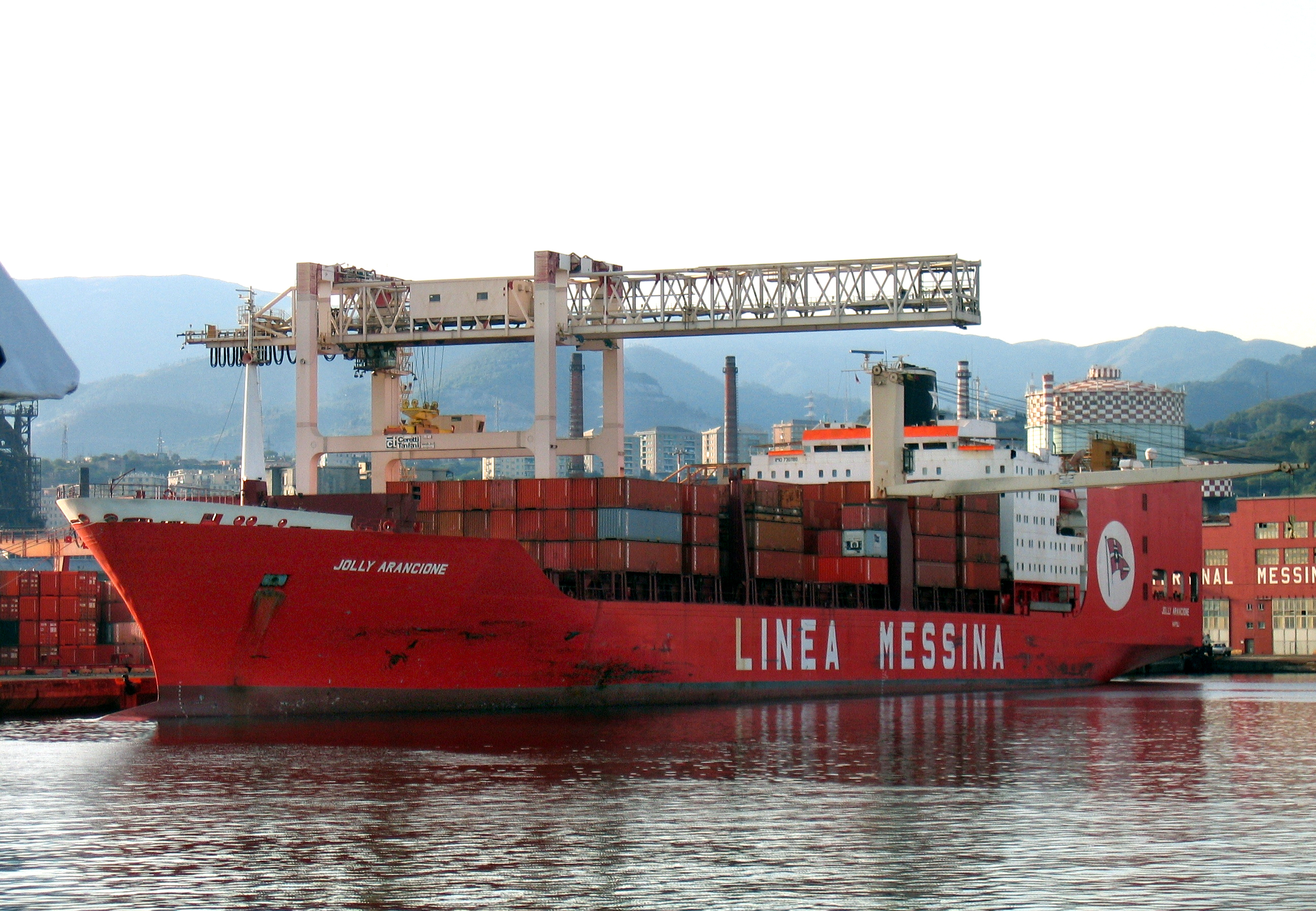 Jolly Arancione (V) Container Ship